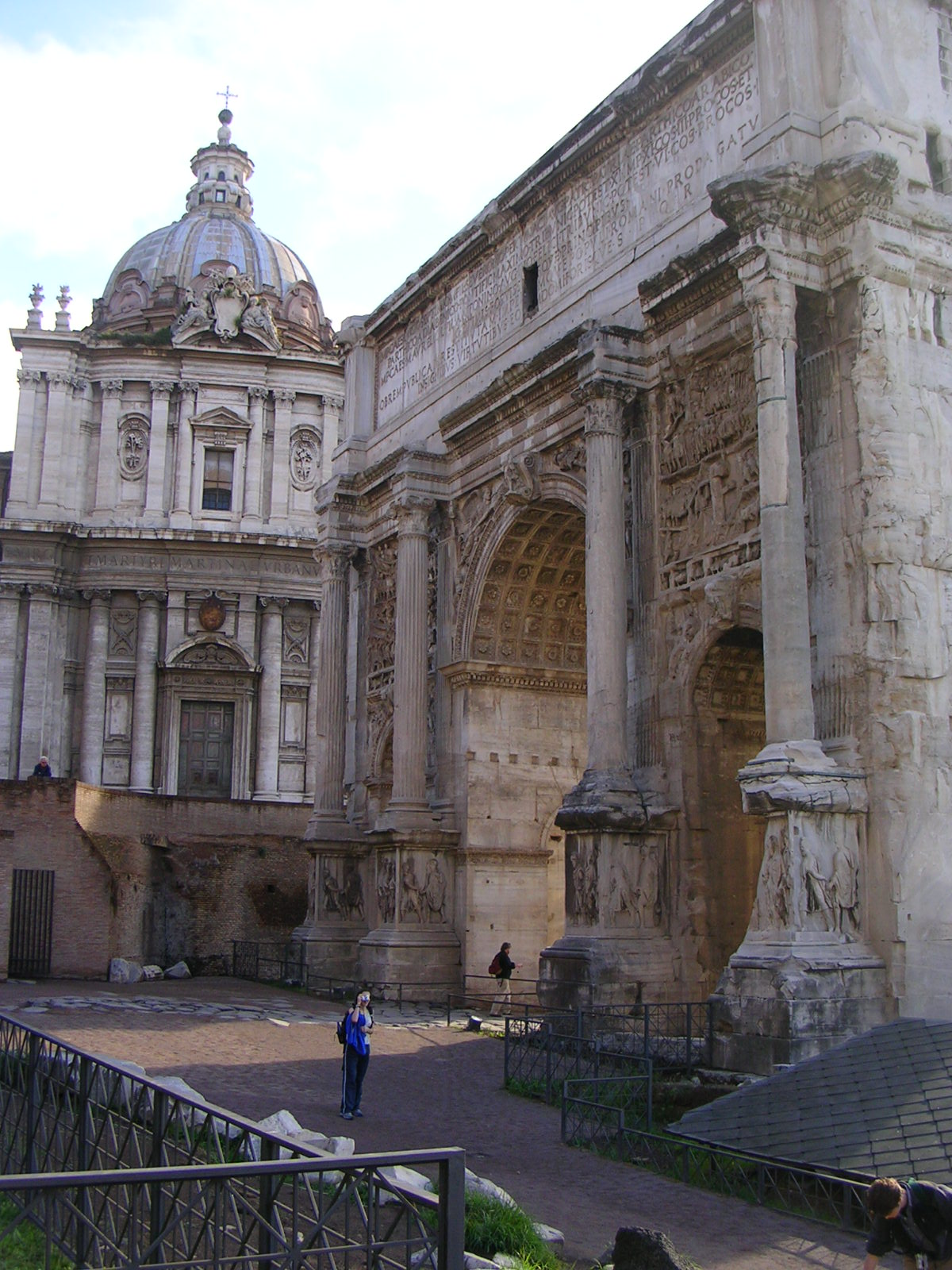 Arch of Septimus Severus from the Forum Romanum in Rome, Italy. Captured using a Nikon Coolpix E3200